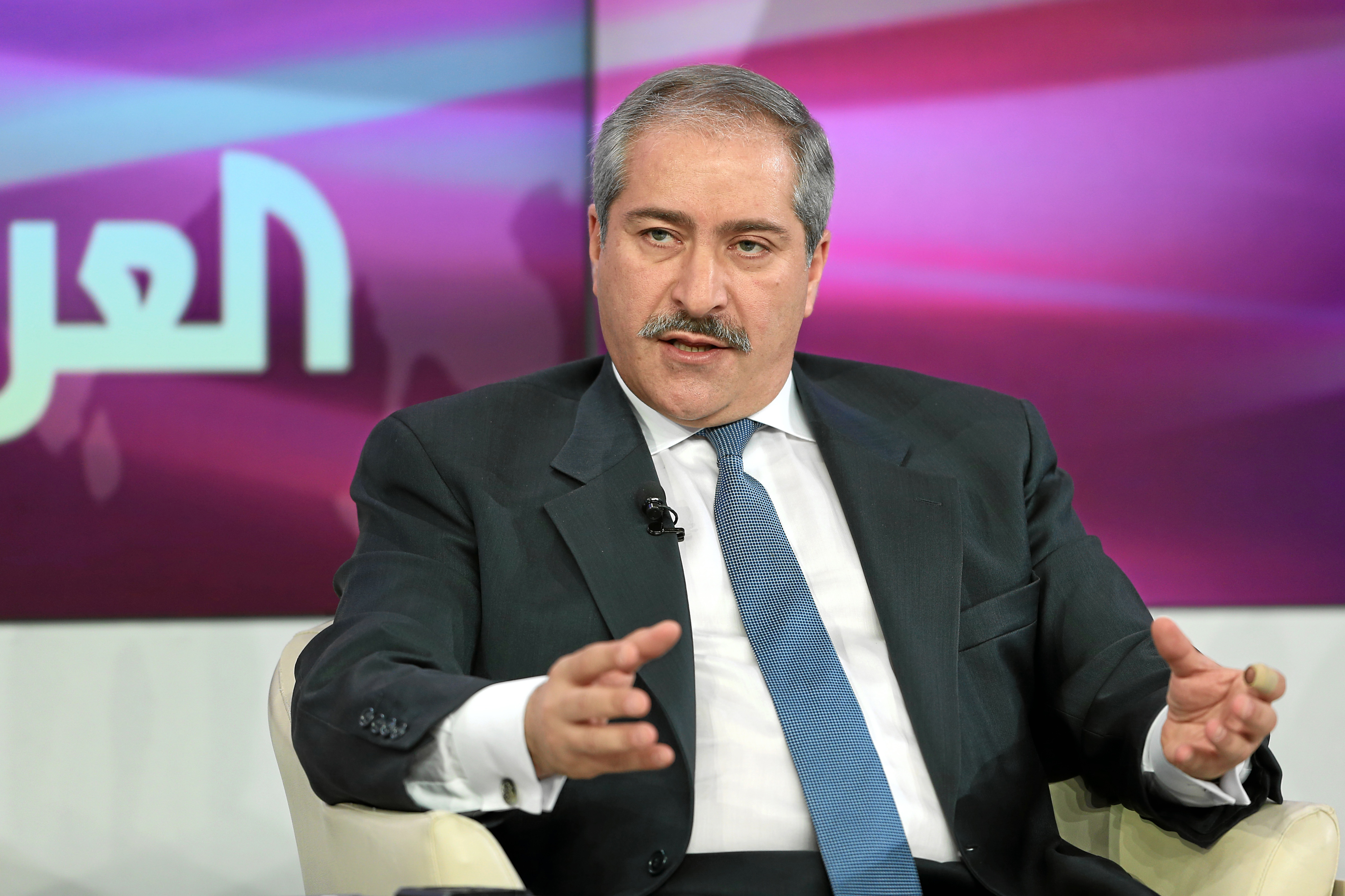 DAVOS/SWITZERLAND, 25JAN13 - Nasser Sami Judeh, Minister of Foreign Affairs of the Hashemite Kingdom of Jordan speaks during the session 'Shaping Syria's Future' at the Annual Meeting 2013 of the World Economic Forum in Davos, Switzerland, January 25, 2013. . . Copyright by World Economic Forum. . Moritz Hager